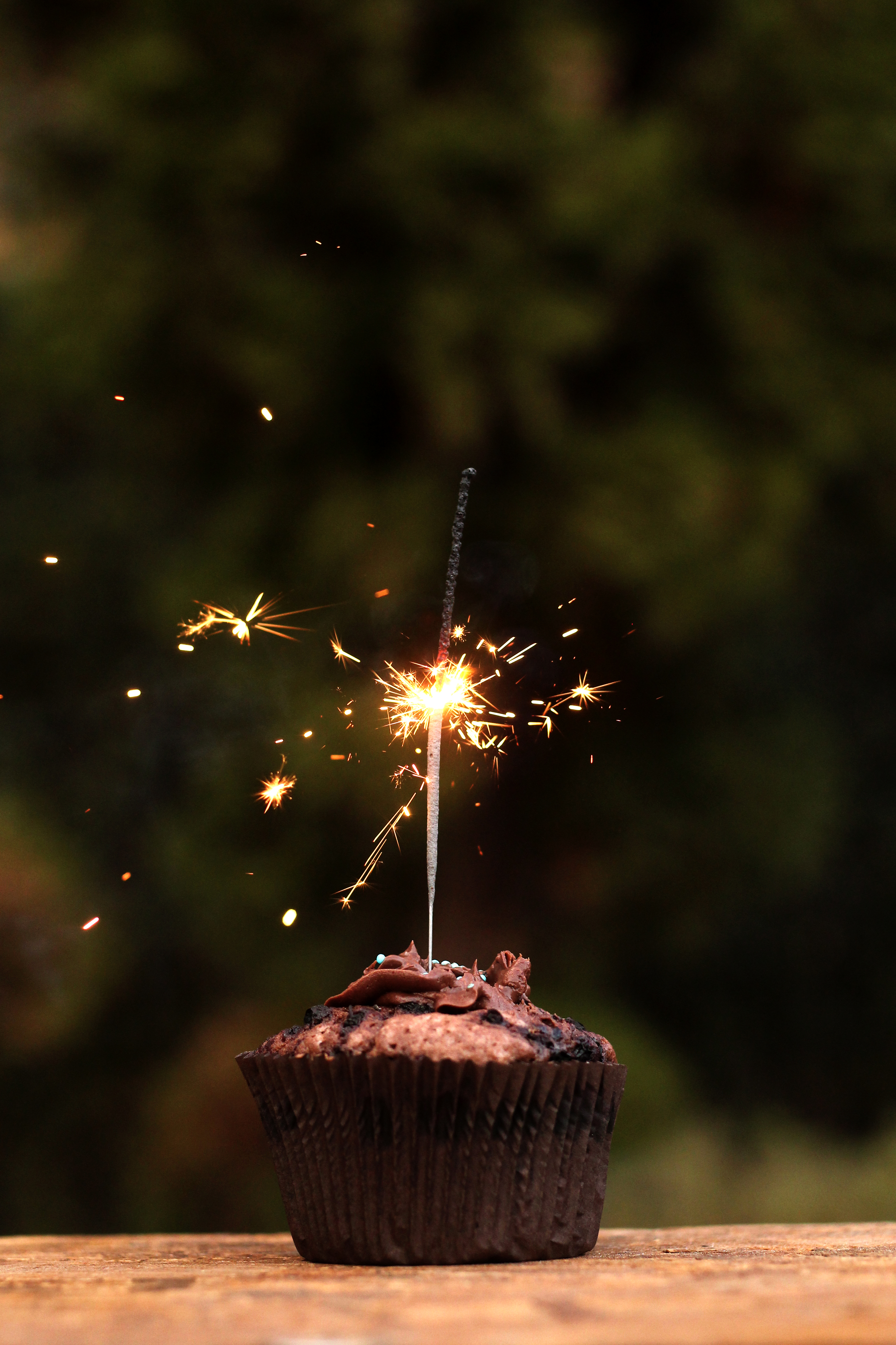 Chocolate blueberry muffin, delicious and great for festive events and celebrations